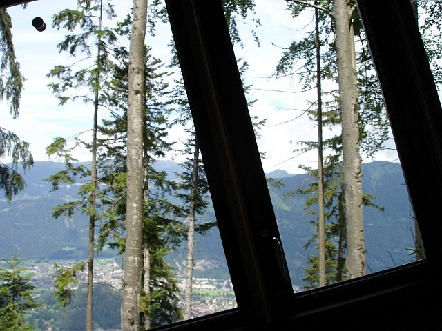 Schynige Platte-Bahn